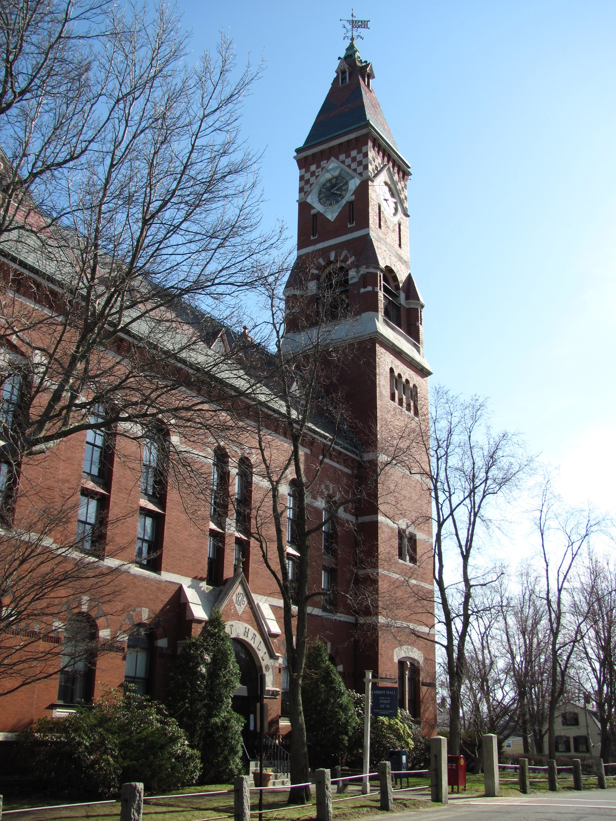 Abbott Hall, Marblehead Massachusetts, April 2010